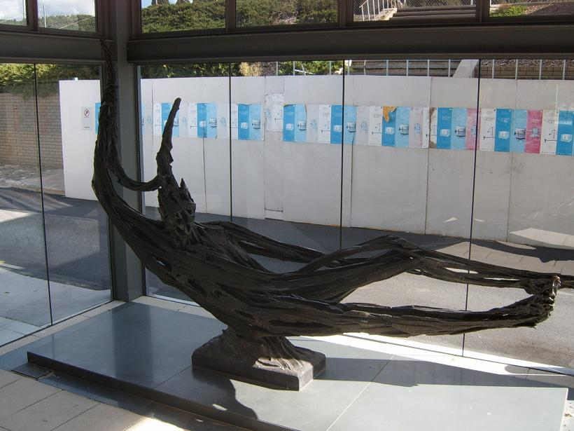 Thespis (1965), bronze, by artist Robert Cook, for the opening of the Canberra Theatre; commissioned by the National Capital Development Commission, Canberra, Australian Capital Territory. Relocated in 1998 to the link between the Canberra Theatre and the Playhouse, at the City Hill entrance. Unfortunately, long-term construction at the rear of the complex makes an uncluttered image difficult to achieve.